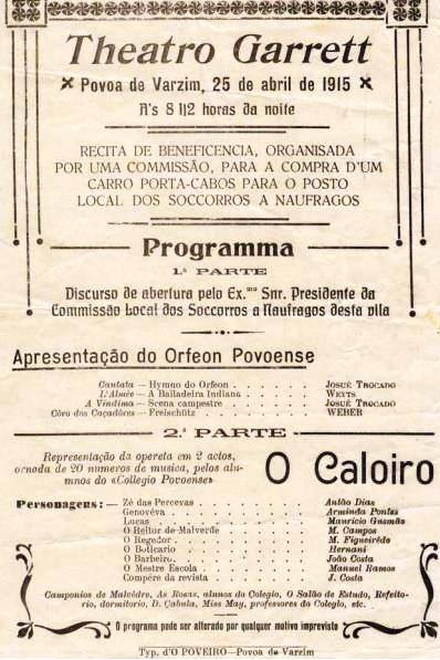 1915 Theatro Garrett Post